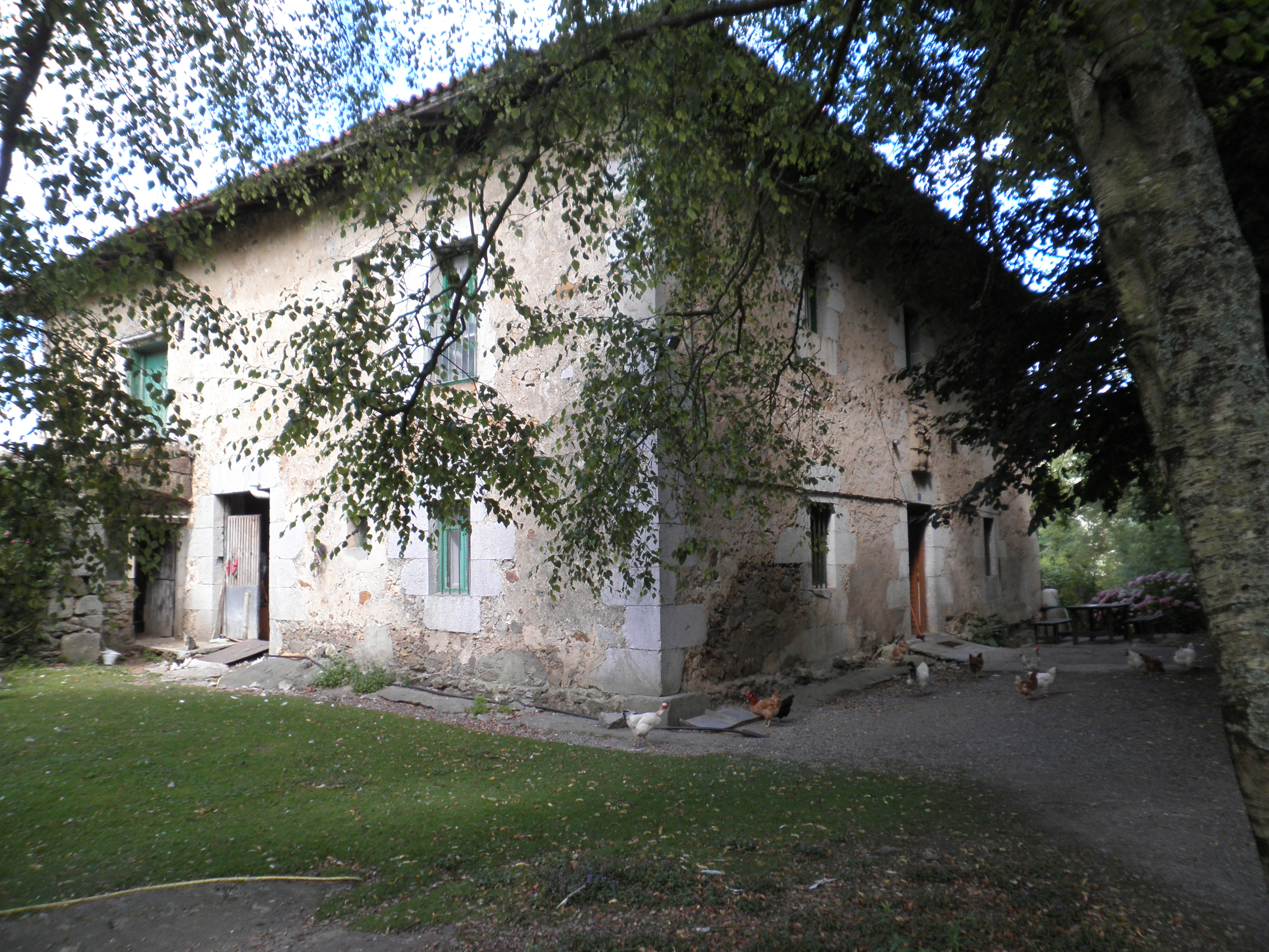 Farmhouse in Zestoa, Gipuzkoa.